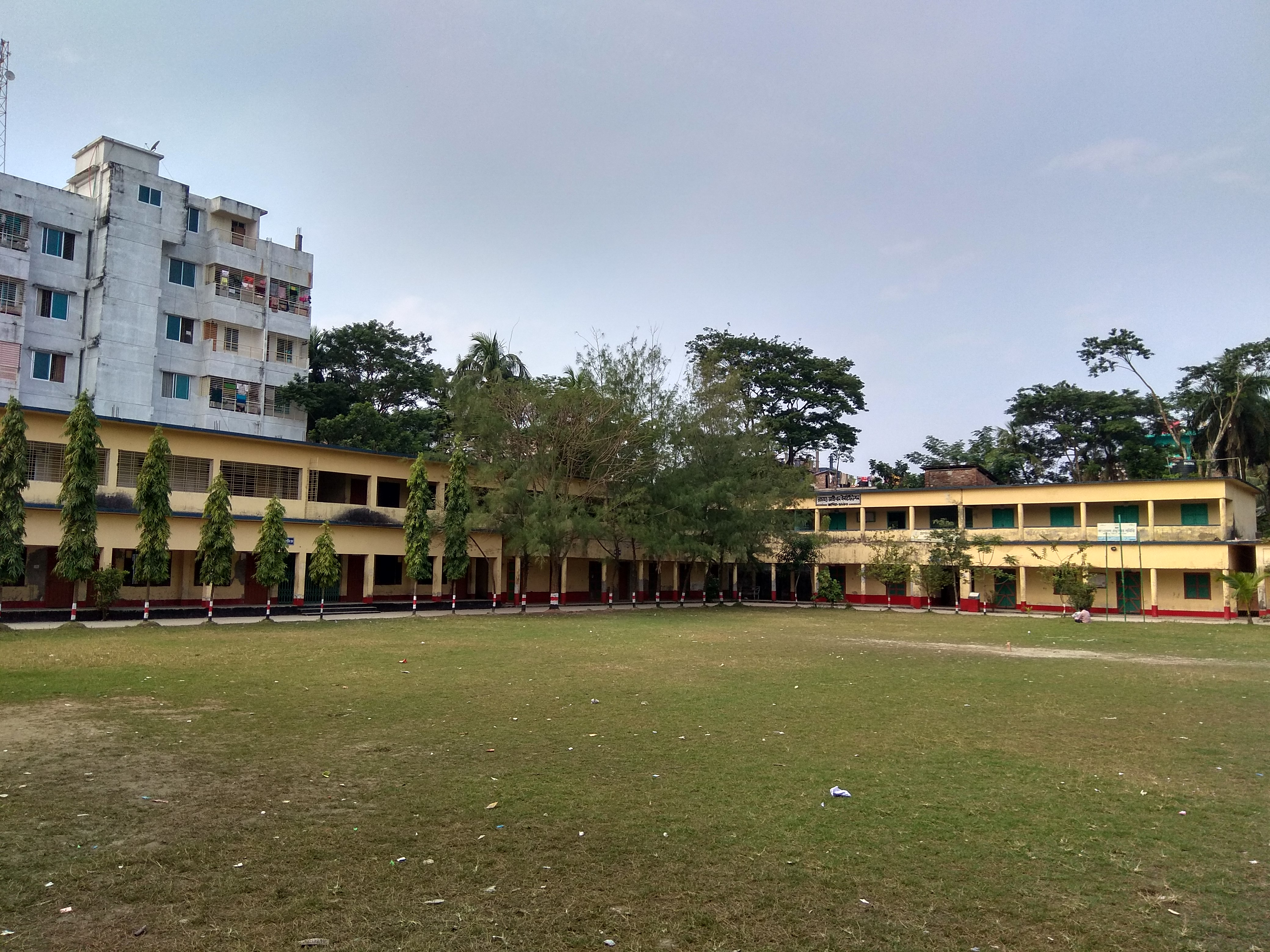 Asmat Ali Khan (A.K) Institution, Barisal